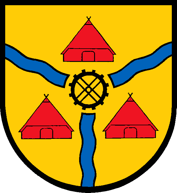 Coat of arms of the municipality Schulendorf in Schleswig-Holstein, Germany.